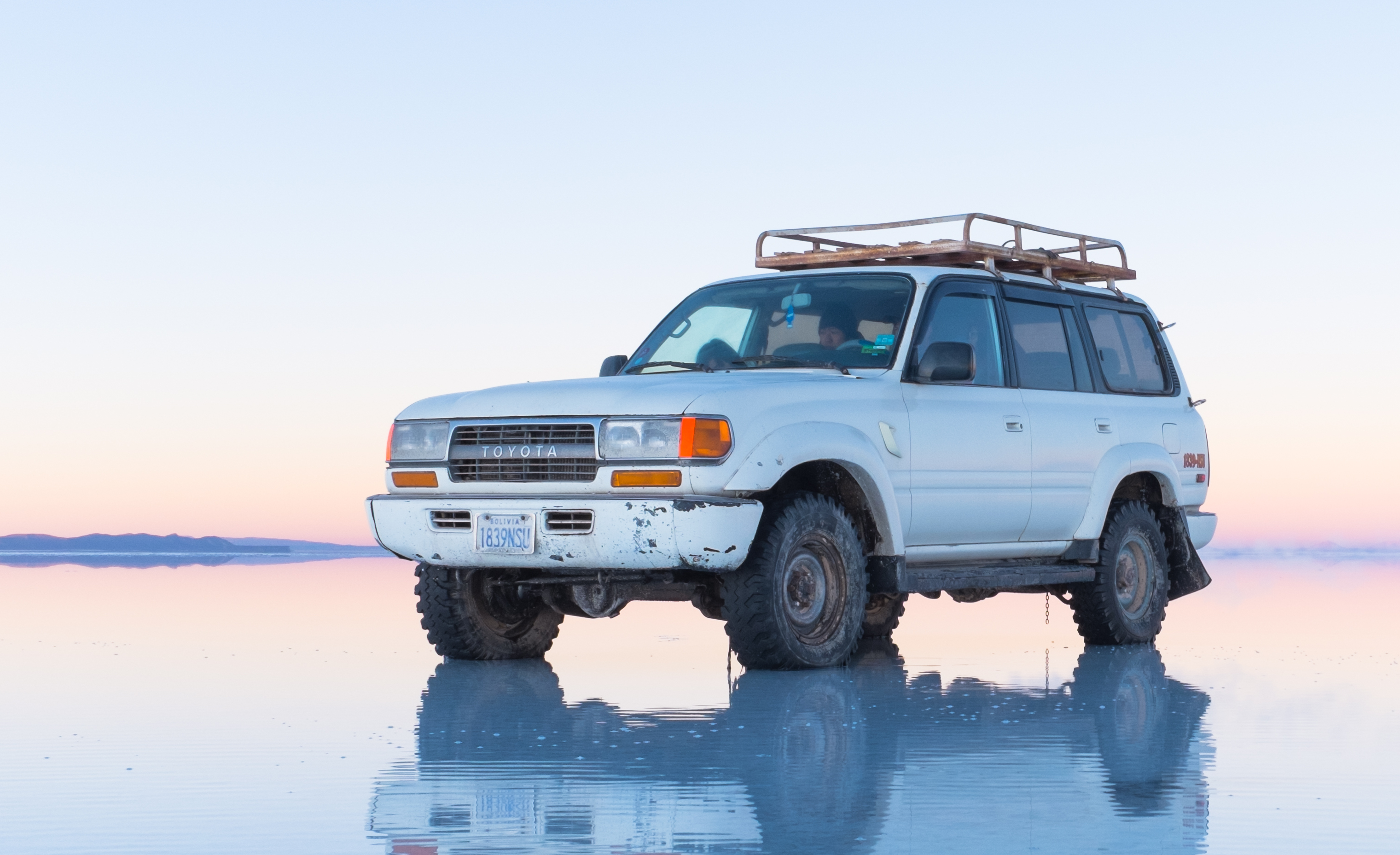 During the winter, the Salar de Uyuni is mostly dry but a small patch close to the city of Uyuni remains covered with water. This photo was taken at sunrise time.